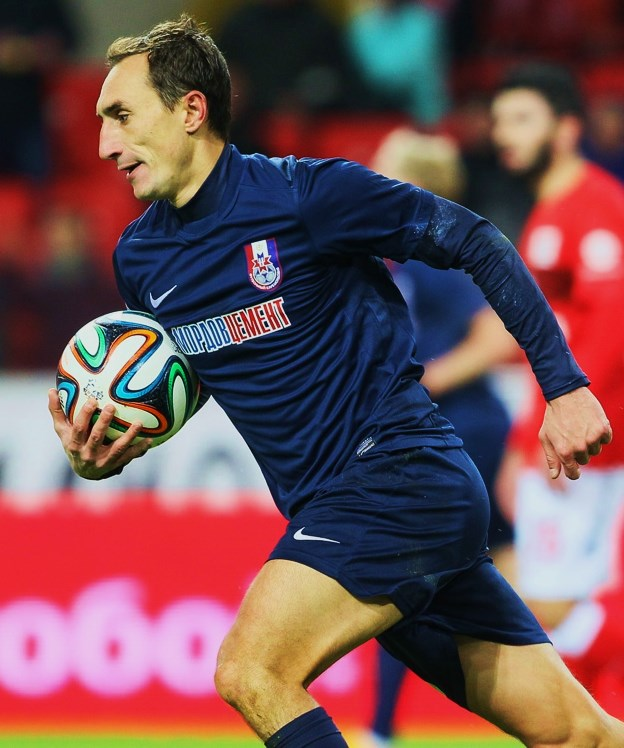 Ruslan Mukhametshin